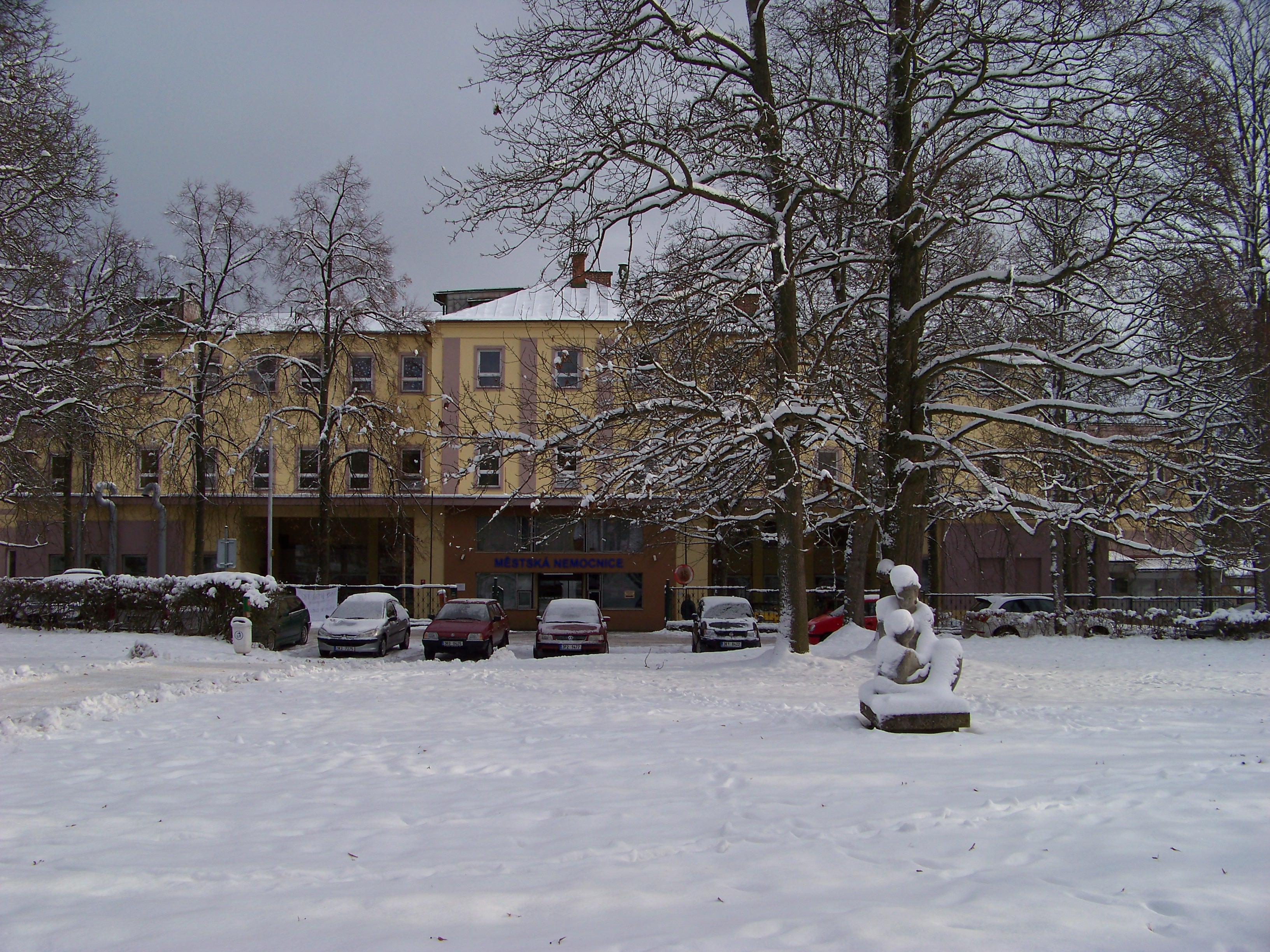 Mariánské Lázně-Úšovice, Cheb District, Karlovy Vary Region, the Czech Republic. U Nemocnice, street, a hospital.